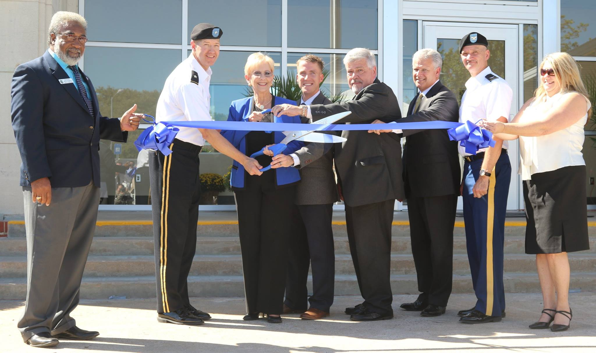 MILLEDGEVILLE, Ga., Oct. 12, 2016 - The Georgia National Guard opens its 3rd Youth ChalleNGe Academy in Milledgeville. Georgia Guard Photo by Sgt. Shye Wilborn